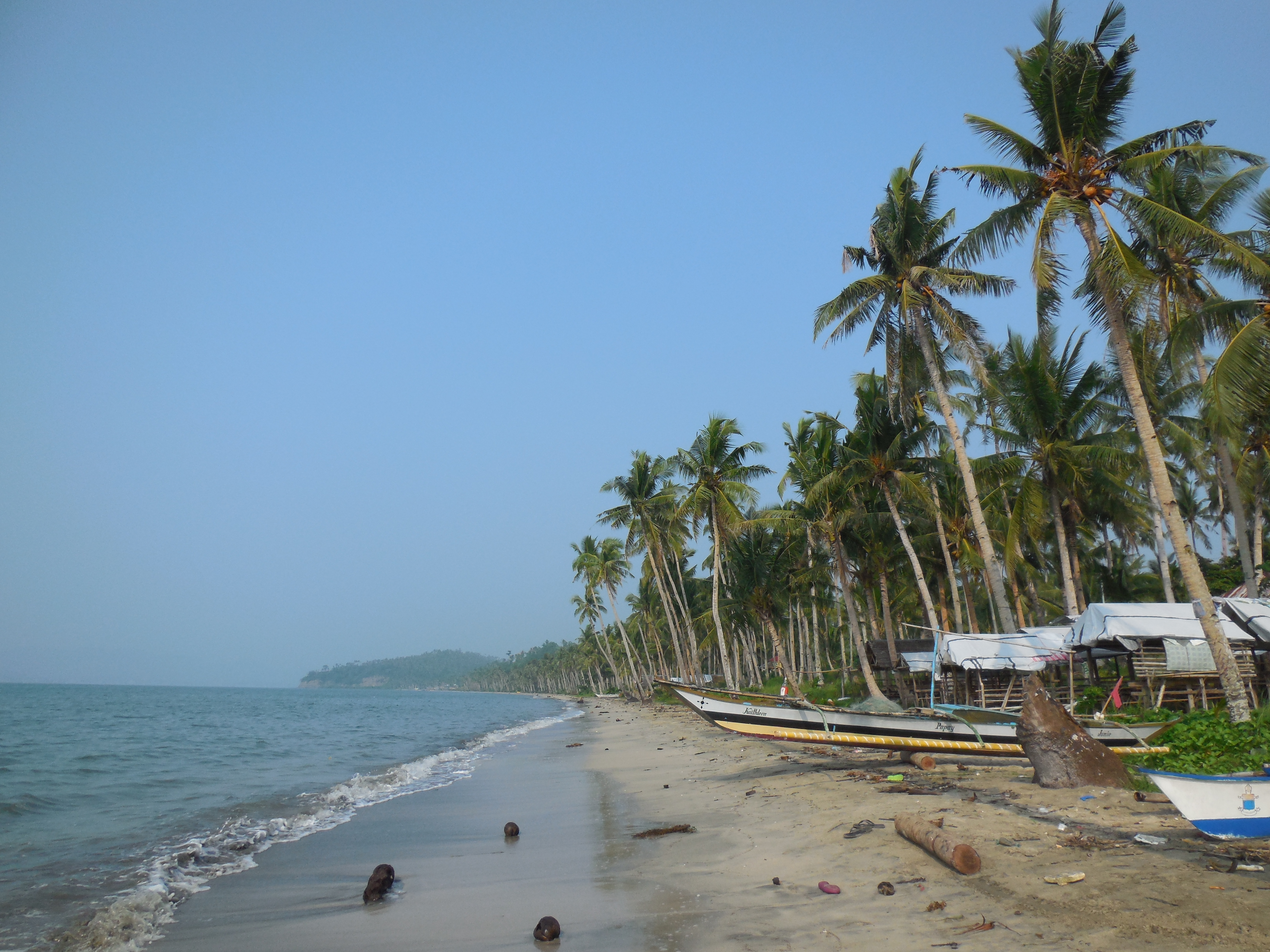 Beach in Brgy. Bacubac, Basey, Samar.